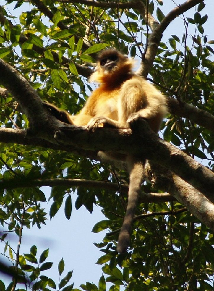 Capped langur (Trachypithecus pileatus durga) in Lawachara forest, near Sreemangal, Bangladesh. Photo taken by: Claude Peloquin (cpeloquin) on 1 January 2008.